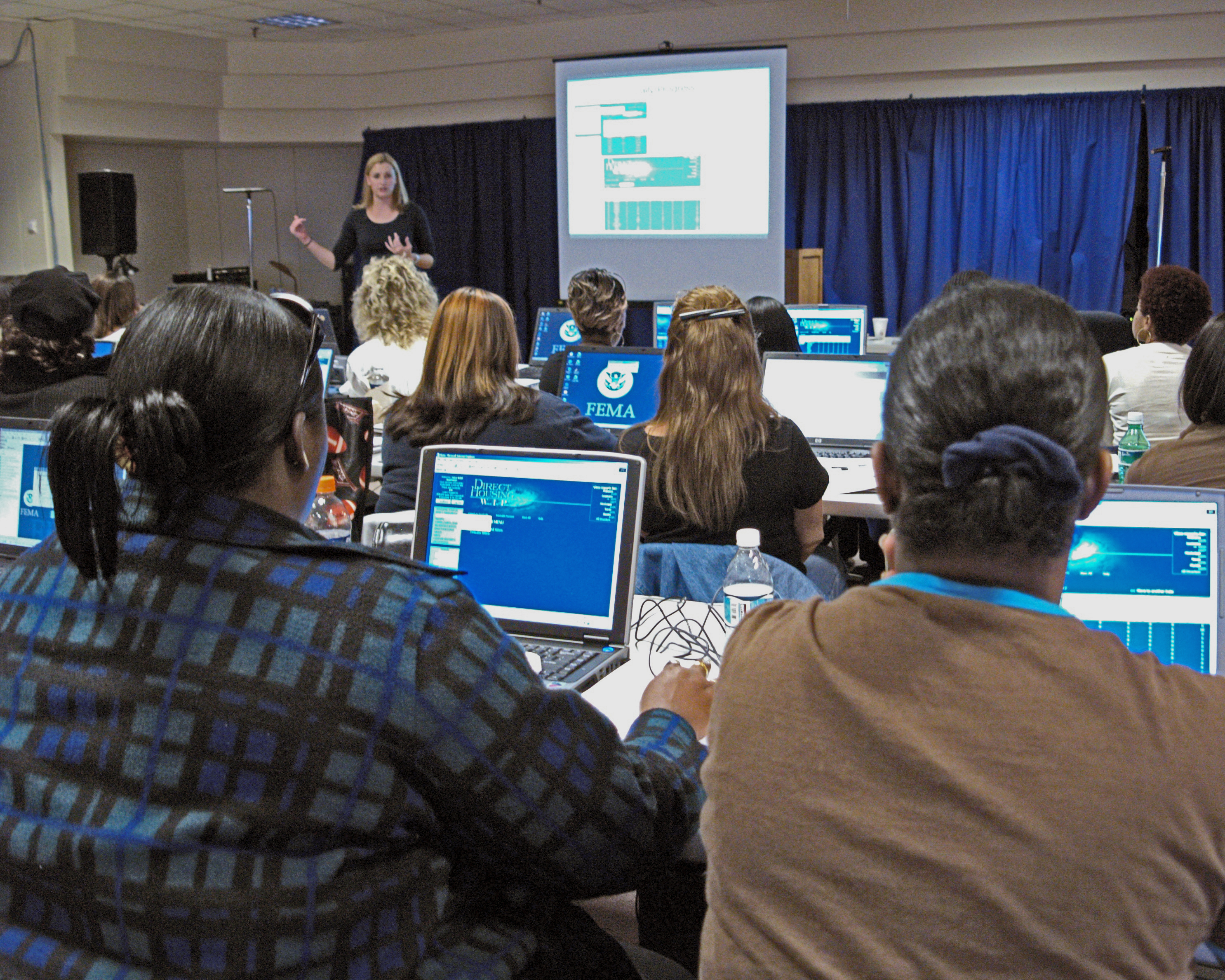 Baton Rouge, La., September 20, 2006 - Individual Assistance (IA) Call Center workers receive training at the Louisiana Area Field Office (AFO). The AFO's Call Center employs nearly 50 people and receives over 2100 inquiries a day. Keith Riggs/FEMA.